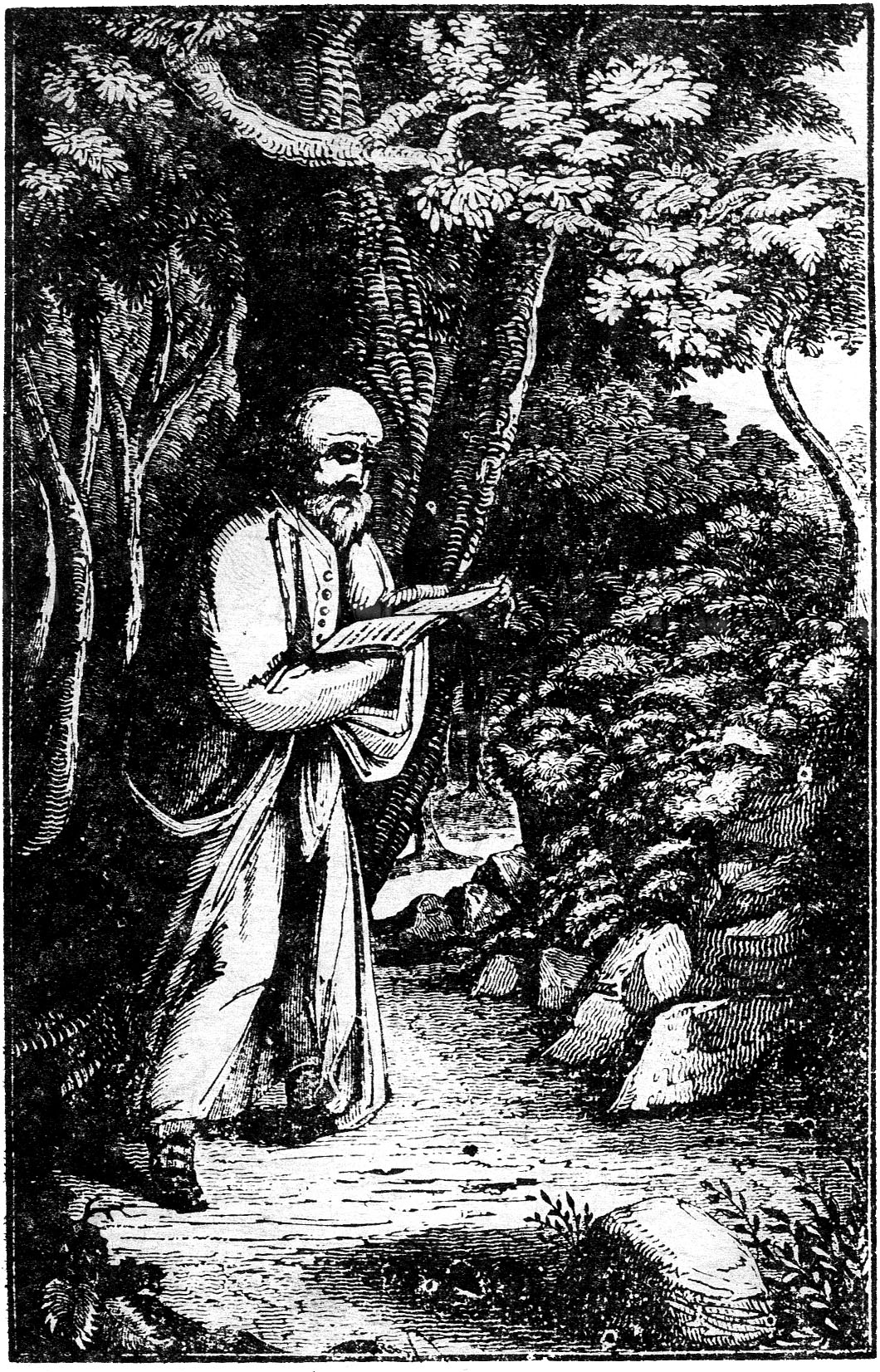 Title page illustration from 1st ed. of "The Pennsylvania Hermit," ca. 1838.